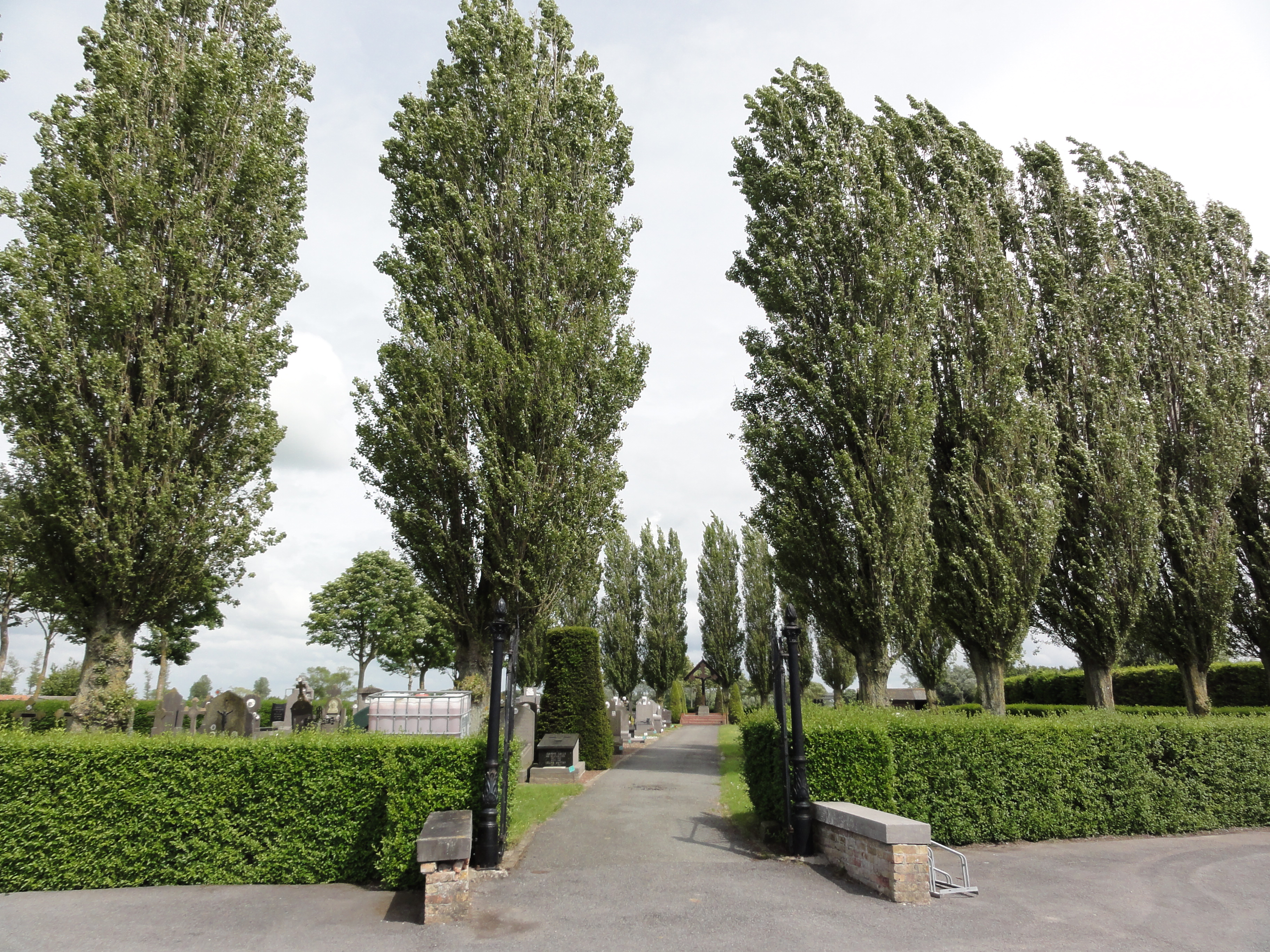 Oud Sint-Joris ("Old Sint-Joris"), former location of the village center and church of Sint-Joris till World War I. Now only the churchyard remains here. Sint-Joris, Nieuwpoort, West Flanders, Belgium.